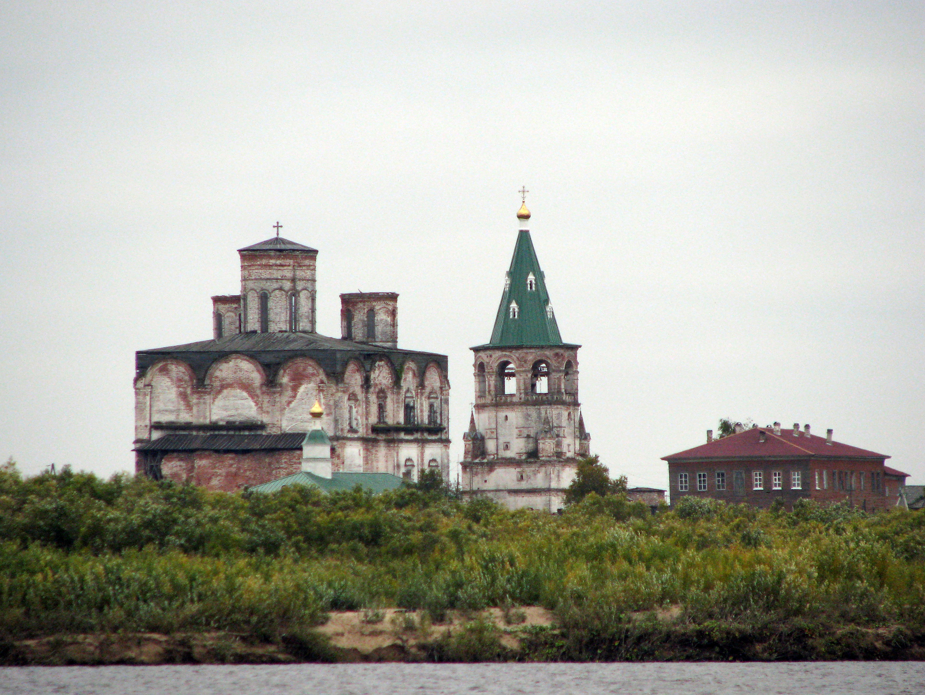 Kholmogory Cathedral, September 2007